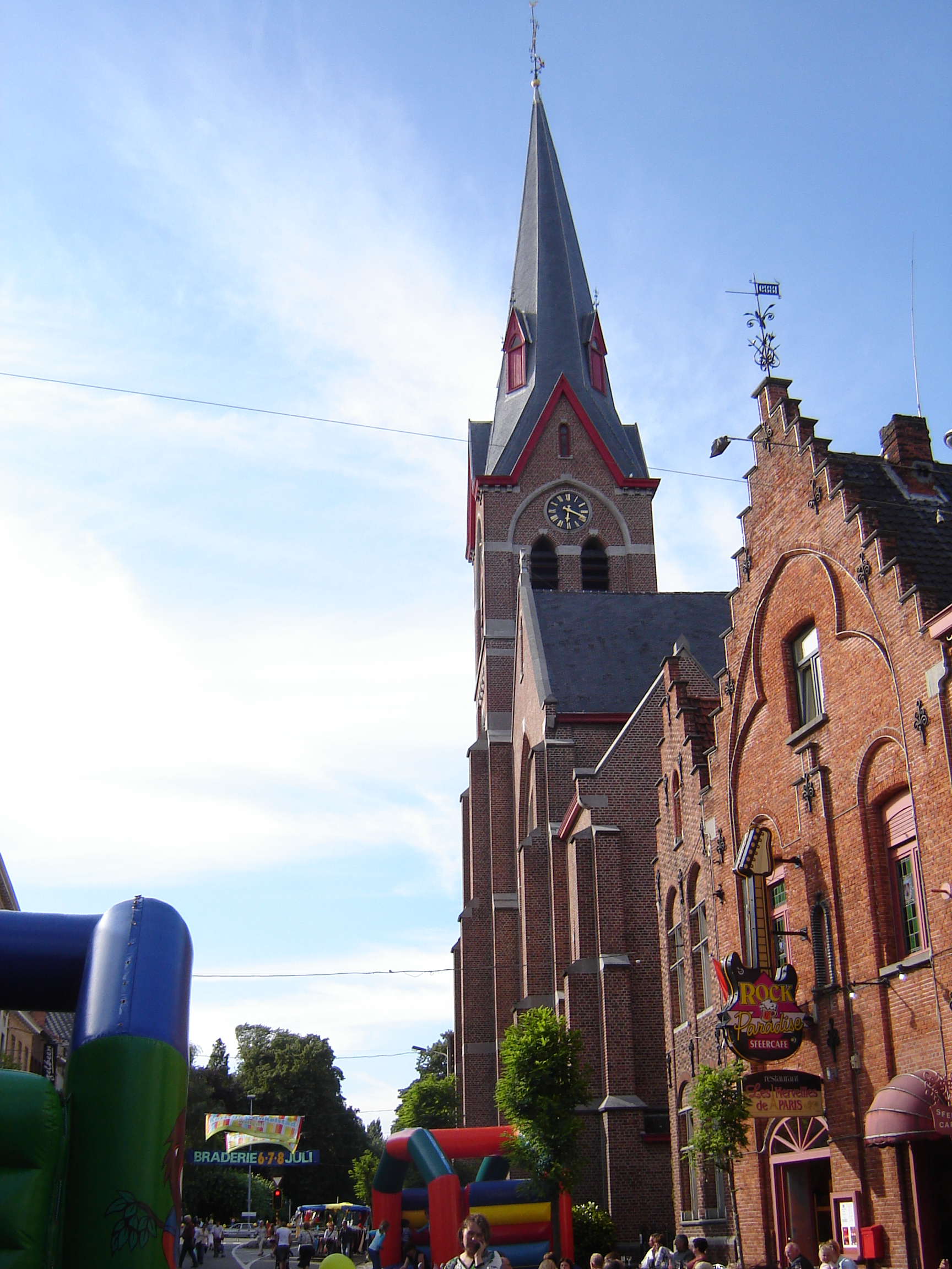 Church of Saint Eligius in Kortrijk, West Flanders, Belgium.